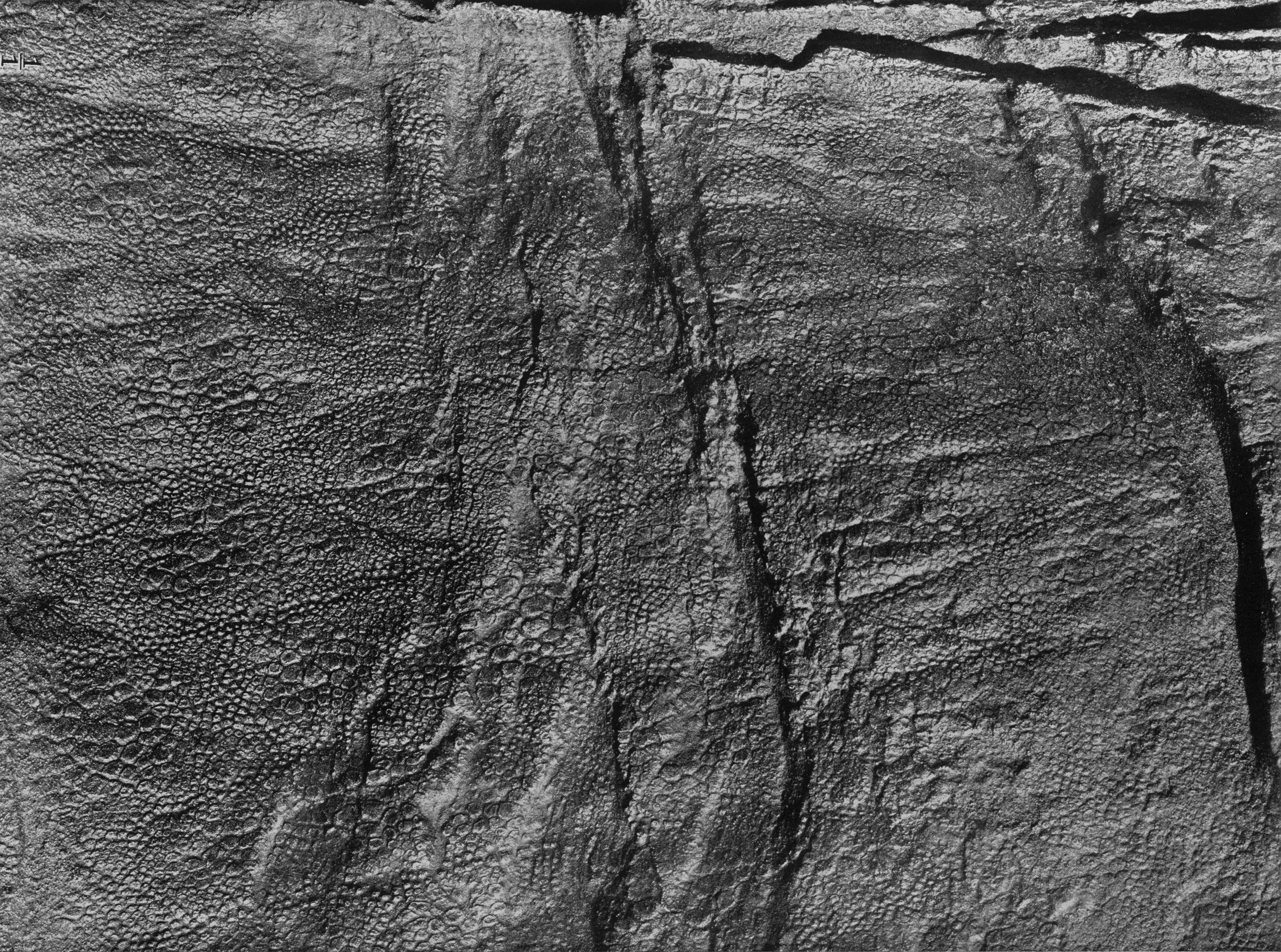 Abdominal integument of Edmontosaurus annectens mummy.